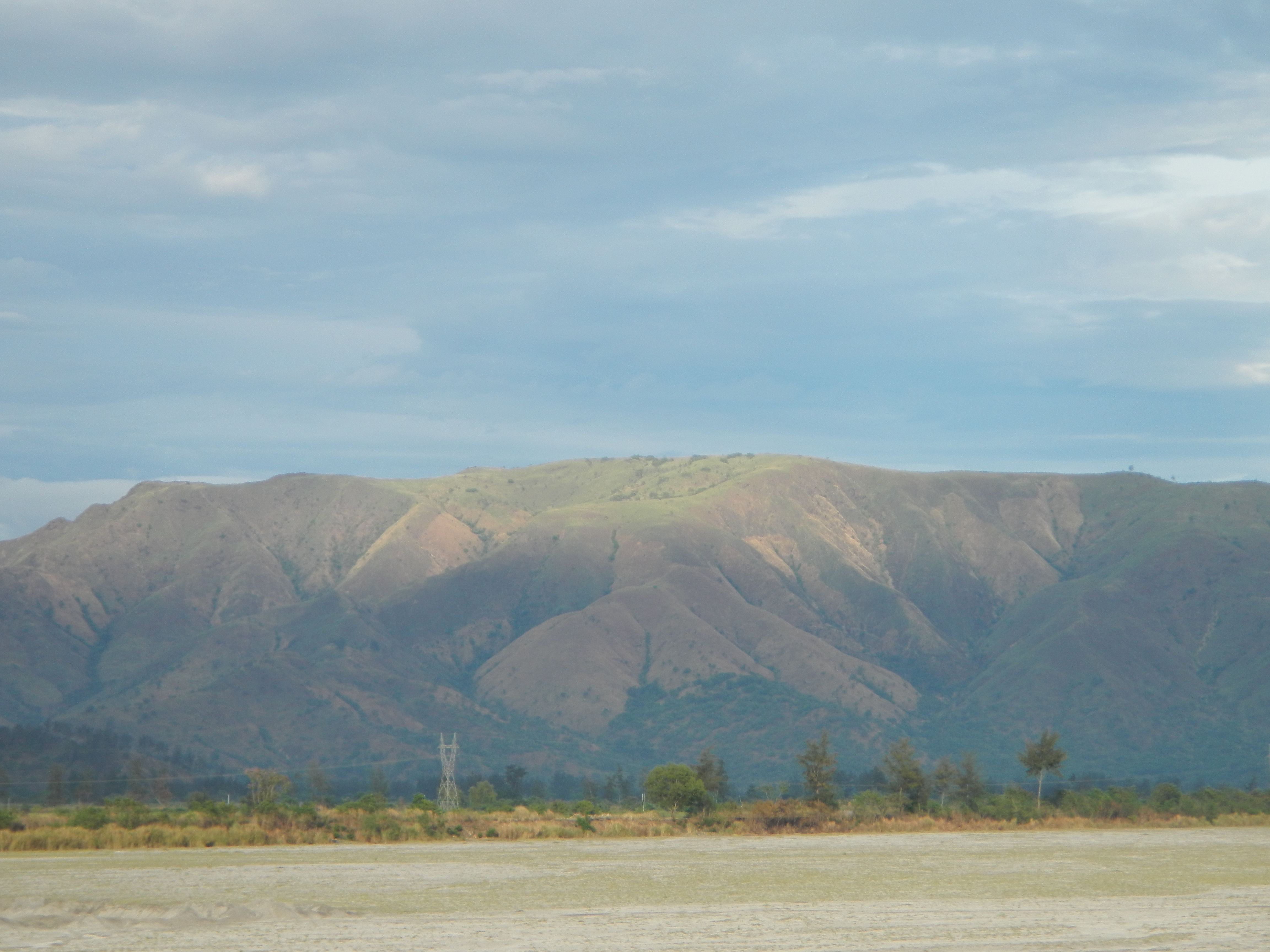 P240-milion Maculcul bridge[1]Coordinates: 15°2'8"N 120°4'31"E[2]PGMA inaugurates P240-million Zambales Bridge SAN NARCISO, Zambales (20 January) -- President Gloria Macapagal-Arroyo flew to this seaside town this morning to inaugurate the new P240-milion Maculcul Bridge linking the Zambales towns of San Narciso and San Felipe. San Narciso, Zambales[3] is a 4th class municipality in the province of Zambales, Philippines. It is famous for its beaches that is suited for surfing. The Philippine Merchant Marine Academy[4] or PMMA is located here. San Narciso also houses one of the best college institutions in southern Zambales, Magsaysay Memorial College, Zambales academy, one of the oldest secondary education institution in the province, it is where the former president Ramon Magsaysay took his secondary education.[5]Coordinates: 14°59'59"N 120°6'0"E Area Code: 4765[6] One of its lankmark is the San Sebastian Catholic Church (San Narciso, Zambales) [7]Coordinates: 15°0'57"N 120°4'49"E[8][9]Southern Vicariate Vicar Forane: Rev. Fr. Audencio Mozo, Jr. Parish of San Sebastian (F-1849) San Narciso, 2205 Zambales Population: 24,070; Catholics: 15,198 Titular: San Sebastian, January 20 Parish Priest: Rev. Fr. Villafuerte suceeding Juan Pastor, Jr. and Rev. Edwin Mertola